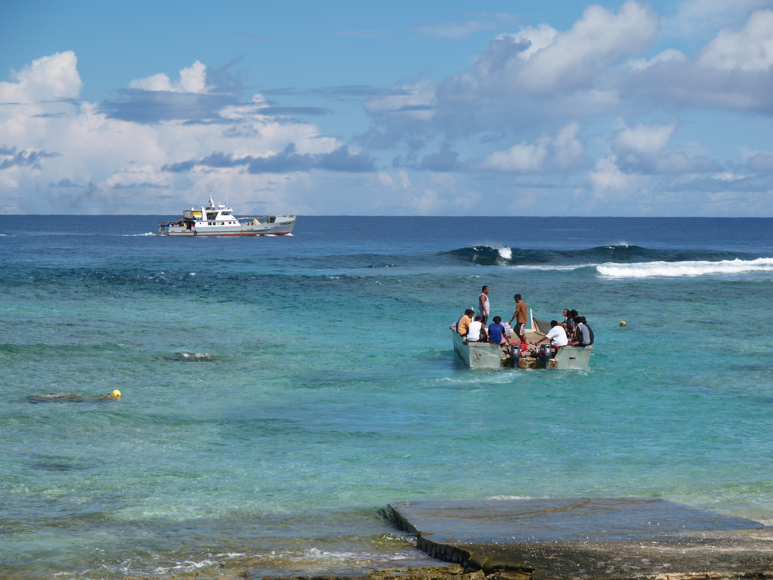 A barge leaves the dock at Nukunonu in Tokelau to collect passengers and cargo from the MV Tokelau drifting in deeper waters in the distance.